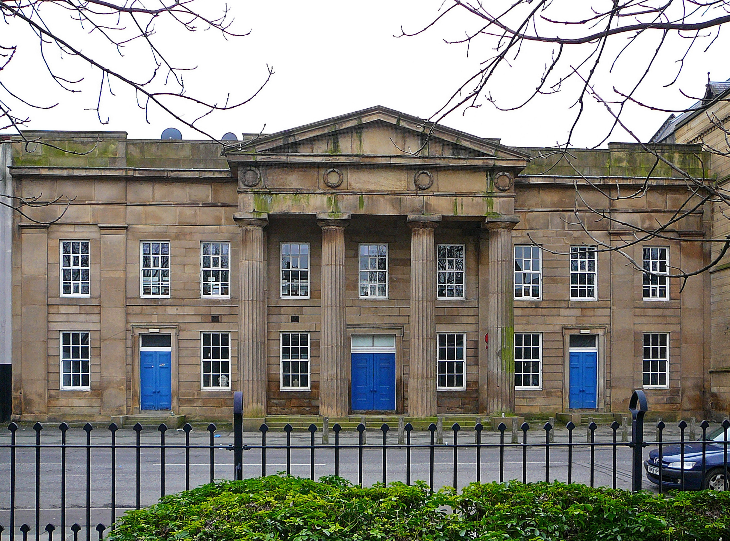 now swallowed by Manchester University